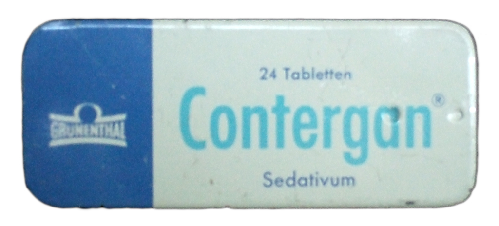 Contergan package